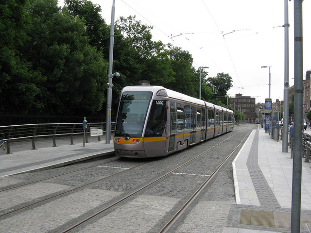 LUAS tram at St. Stephen's Green This is the City terminus of the LUAS Green Line. From here, cars depart for Sandyford in the southern suburbs. Much of the route makes use of the track bed of the old Harcourt Street railway line.